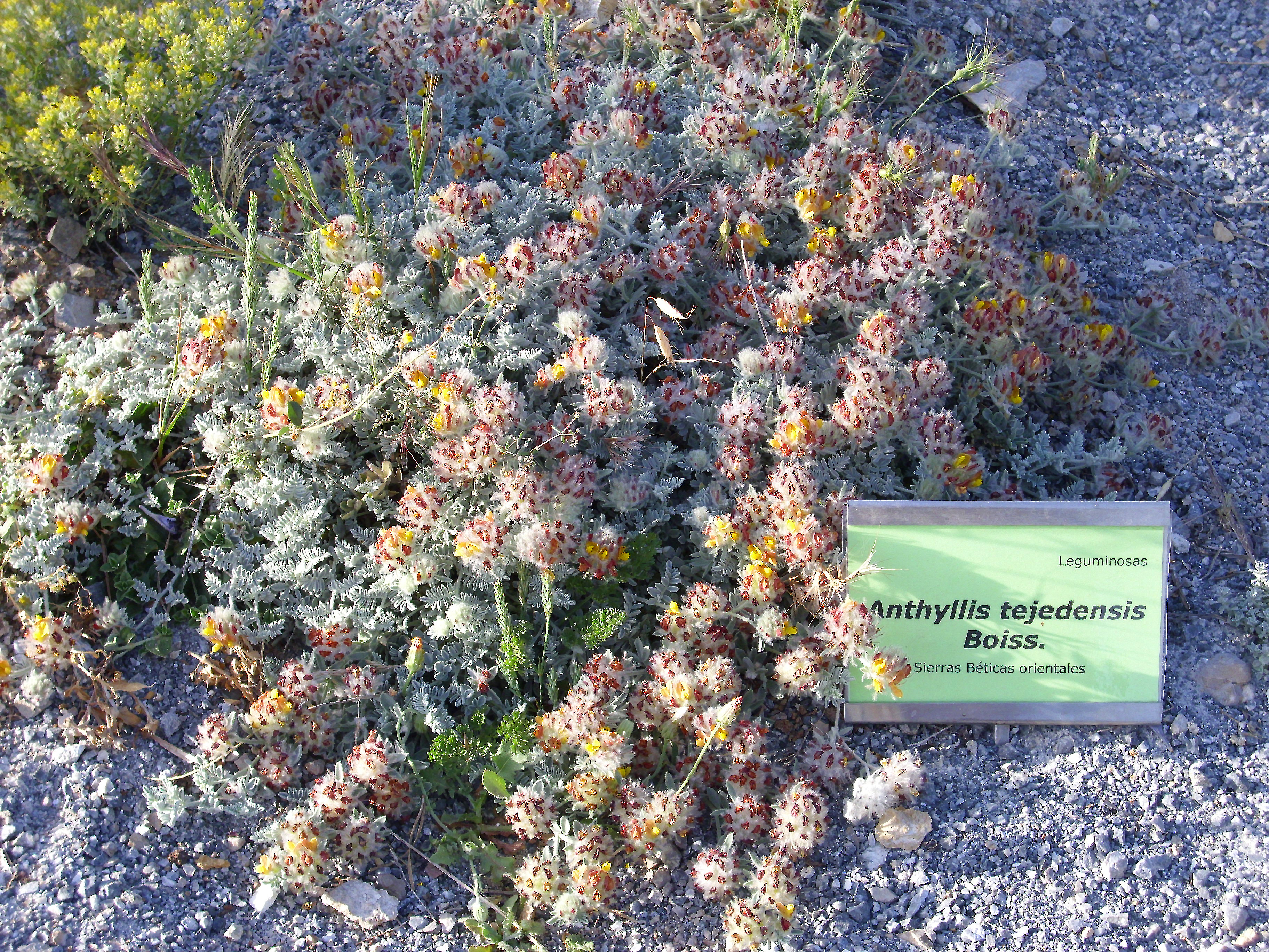 Anthyllis tejedensis habit, Sierra Nevada, Spain